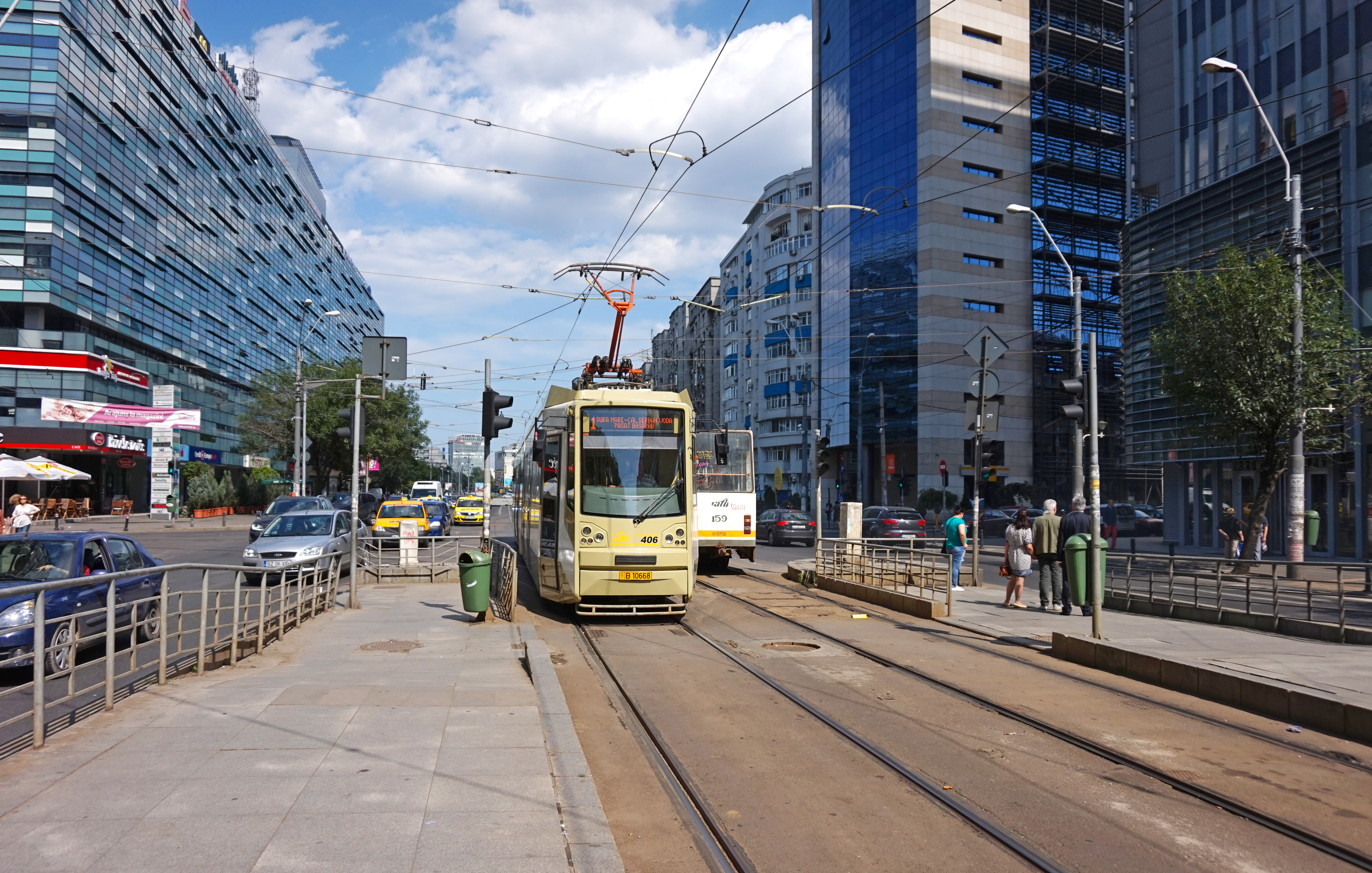 A tram 1 arriving to the tram stop Dr. Felix. The street Șoseaua Nicolae Titulescu, Bucharest.This photograph was taken with a Sony ILCE-5000